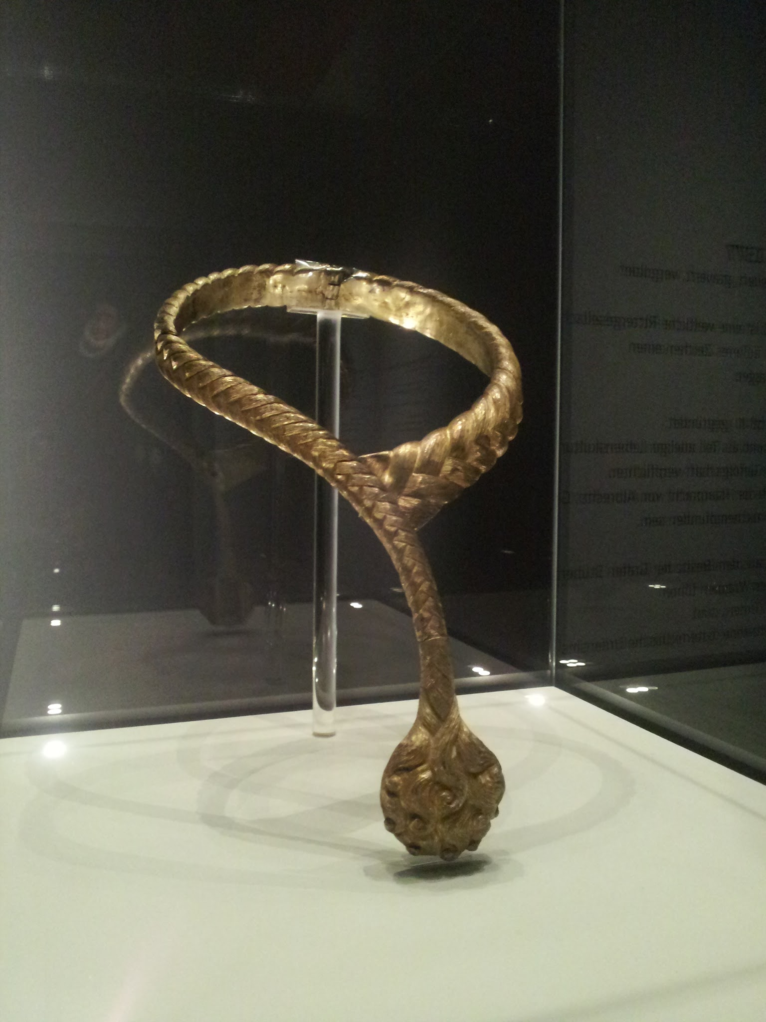 Order of the Braid - one of the oldest, now extinct, Austrian orders. The only existing piece is exhibited in the Museum im Palais, Graz, Austria